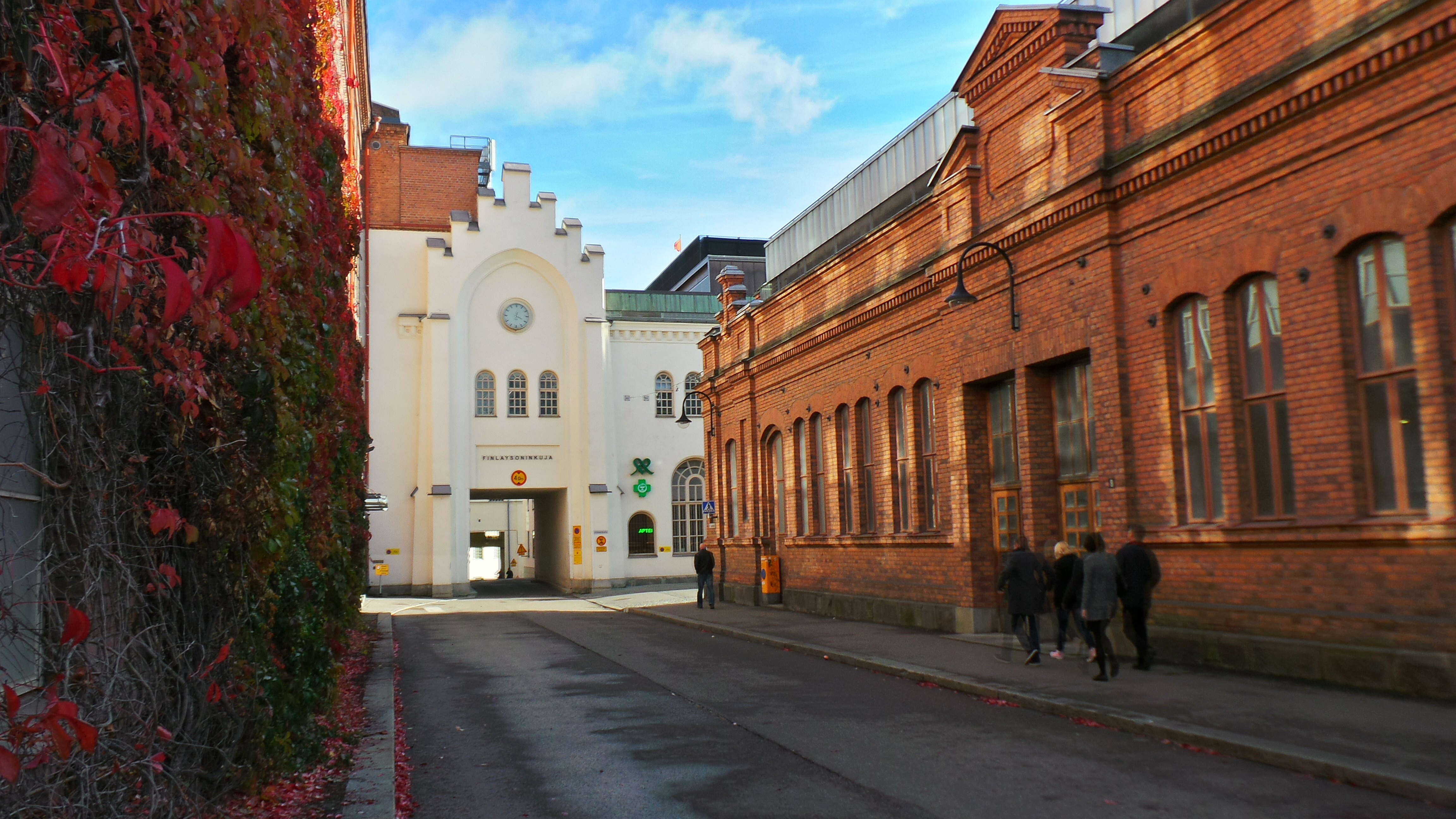 TAMK Finlayson campus